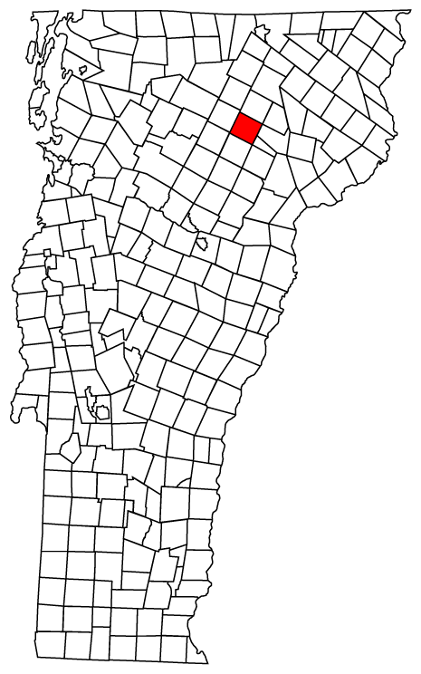 Description: Map of Vermont towns with Greensboro highlighted Source: Map created by Jared C. Benedict on 26 March 2004. Copyright: © Jared C. Benedict.